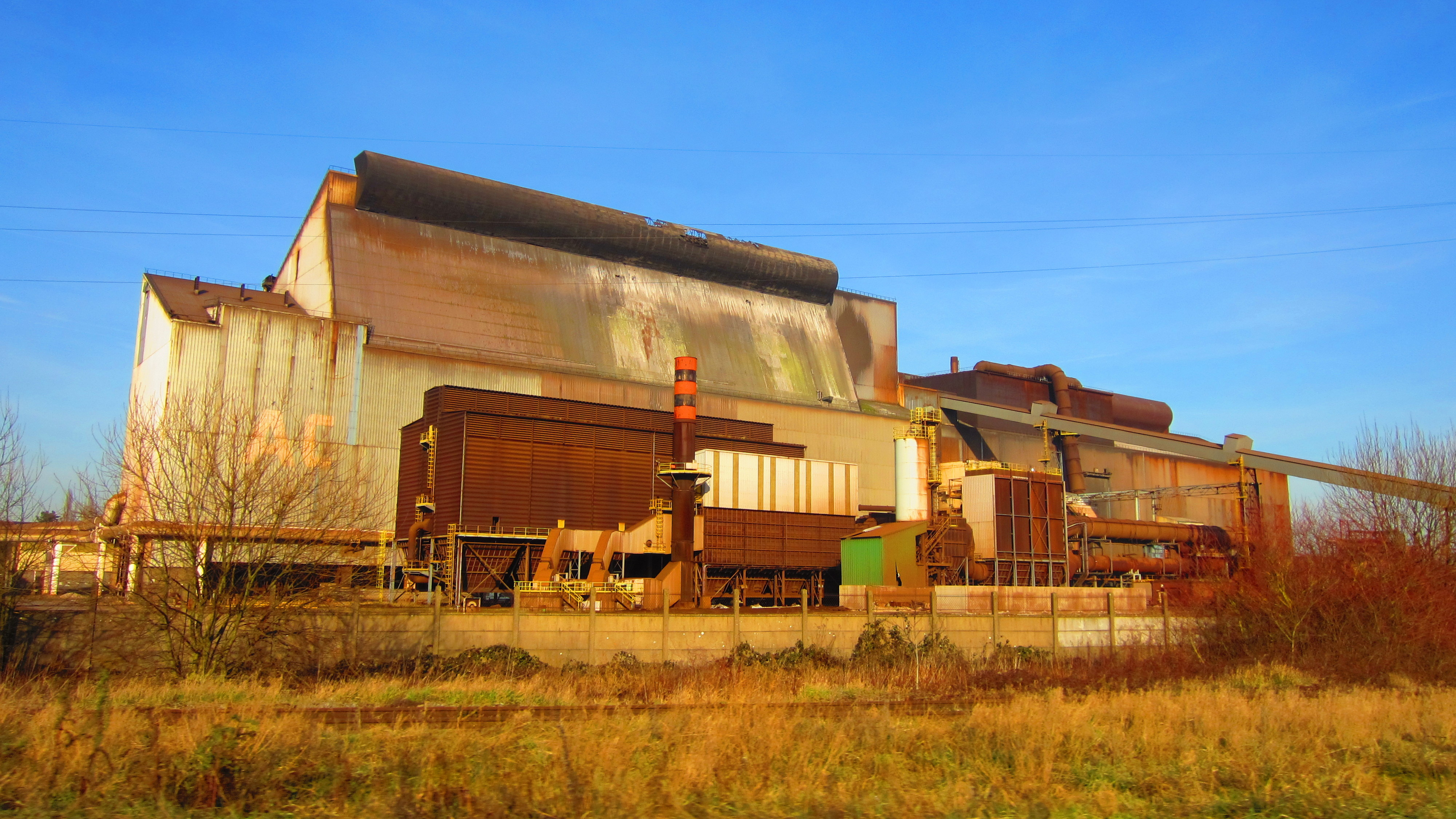 Gandrange steelworks